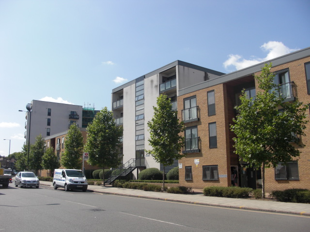 Plough Lane 2014 - former Wimbledon FC ground